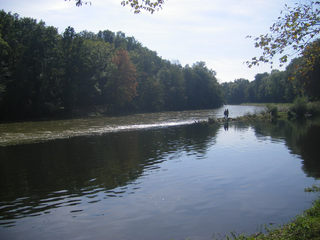 The estuary of Iller to Danube at Ulm